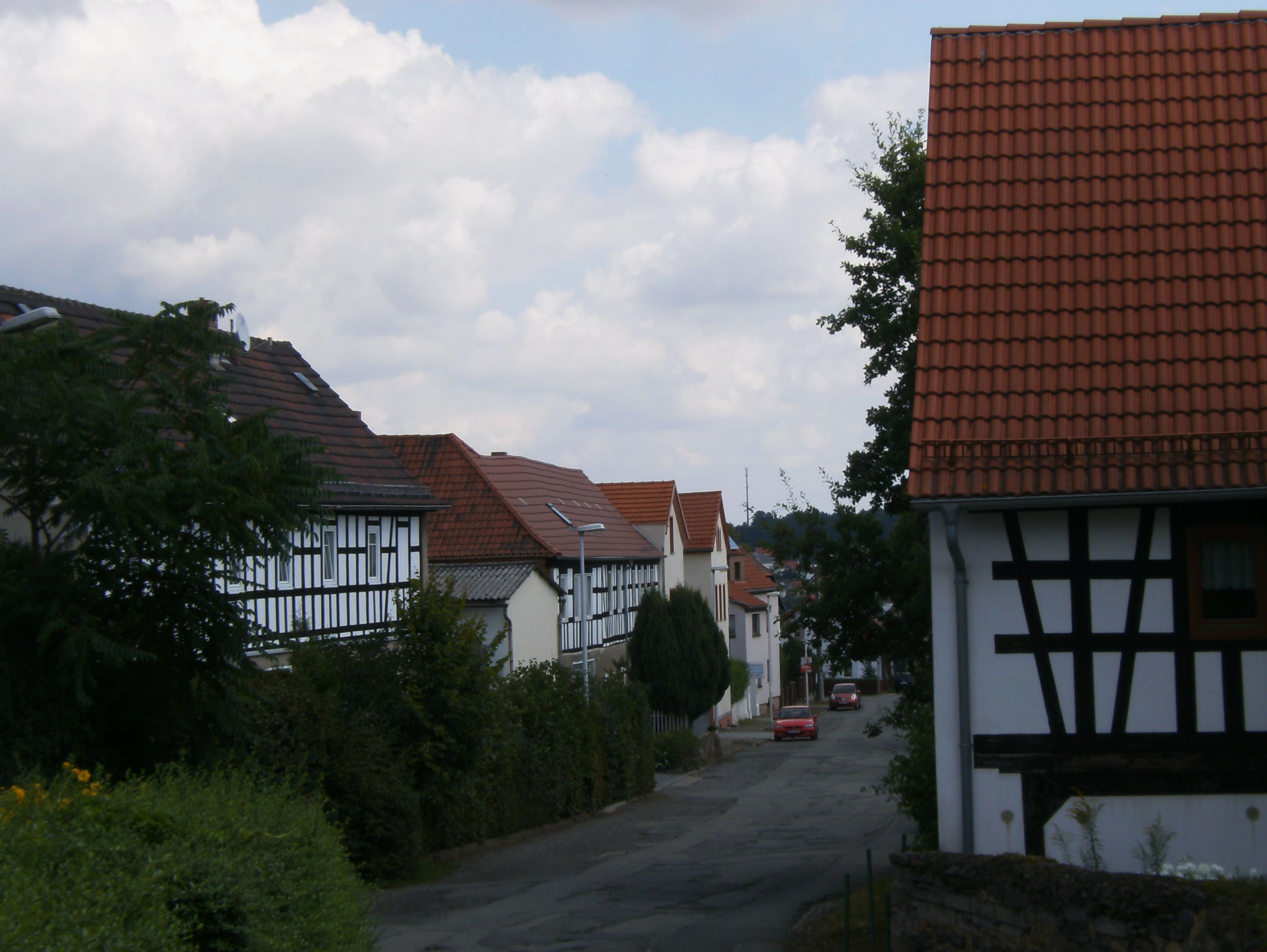 Gera Oberröppisch, village part